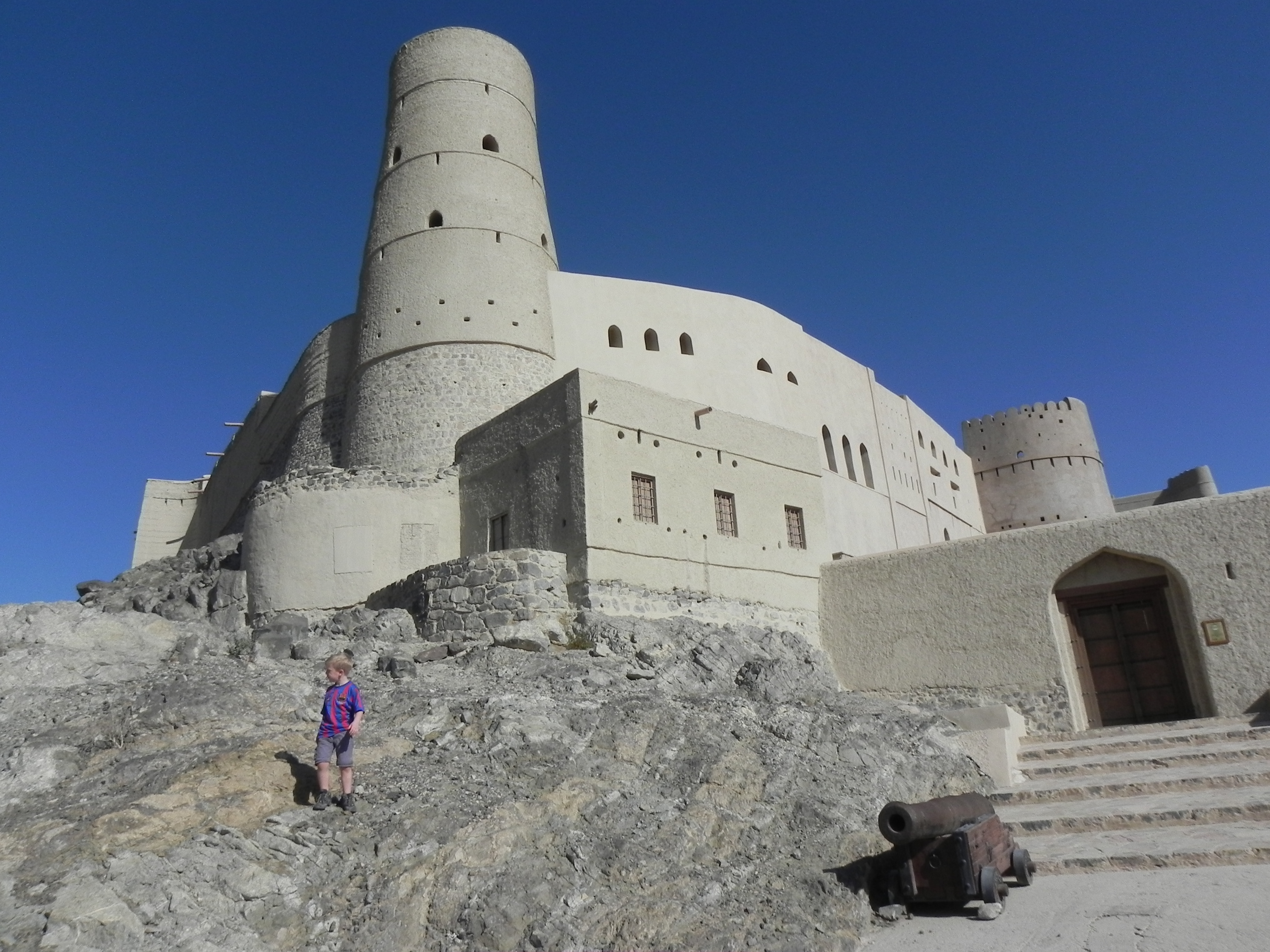 We weren't visiting on a Thursday so we spent our time looking around the outside of the fort. Bahla fort is the oldest fort in Oman and was designated as a UNESCO site in the 1980s.